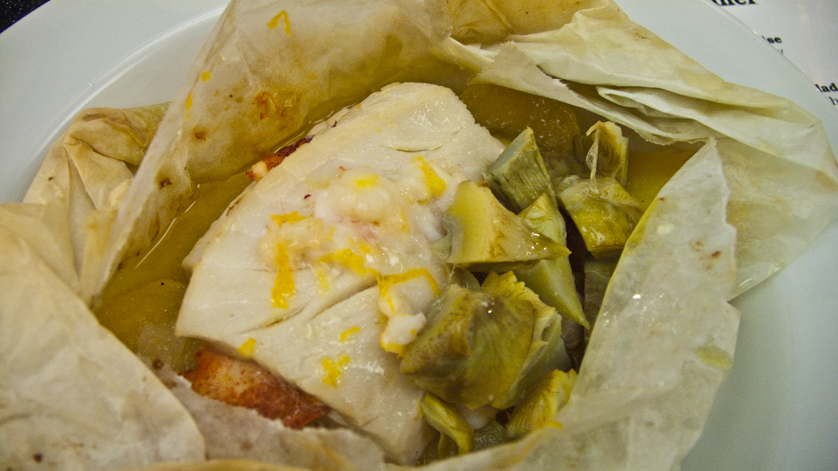 Sustainable Black Cod en papillote w/ lobster, baby artichokes, new potato & cascade hop oil